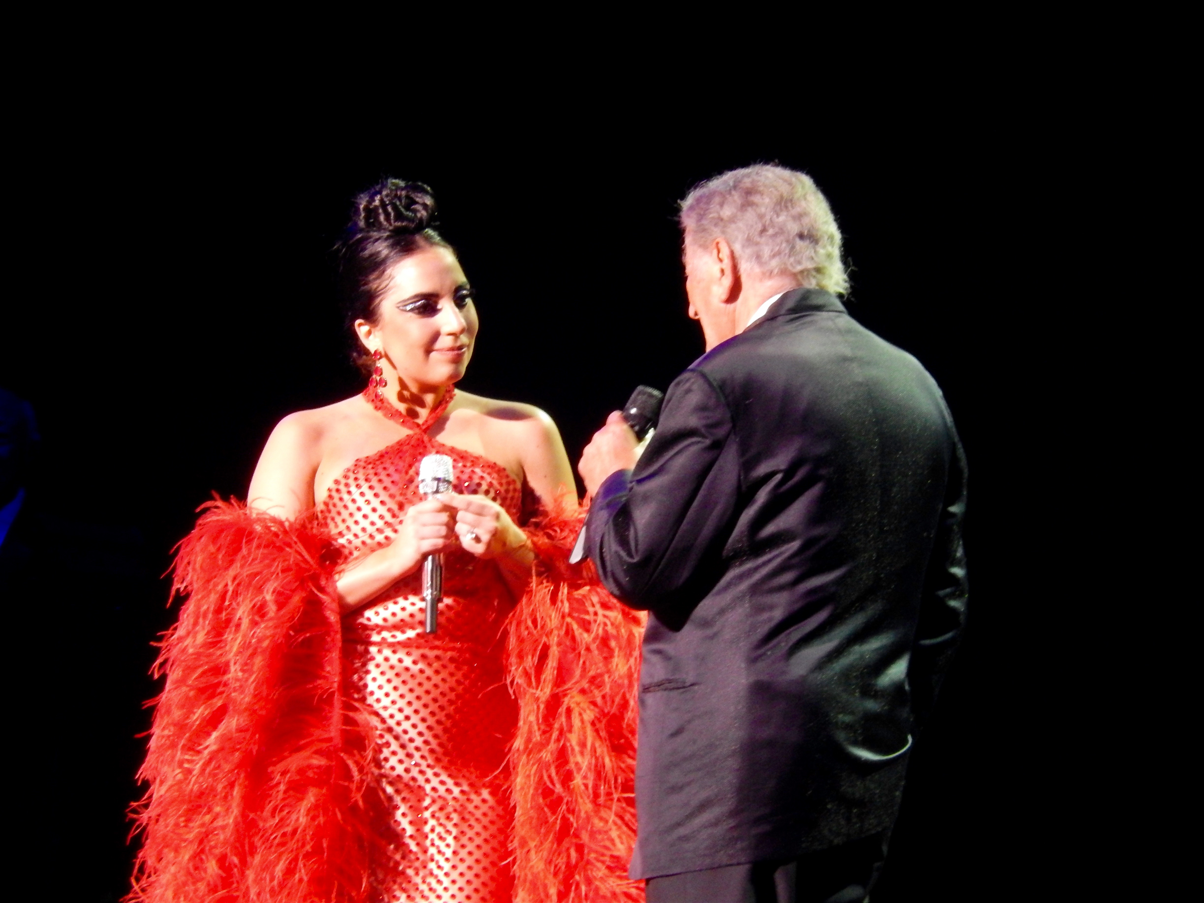 Cheek to Cheek Concert. The Axis. Planet Hollywood. Las Vegas. April 2015.